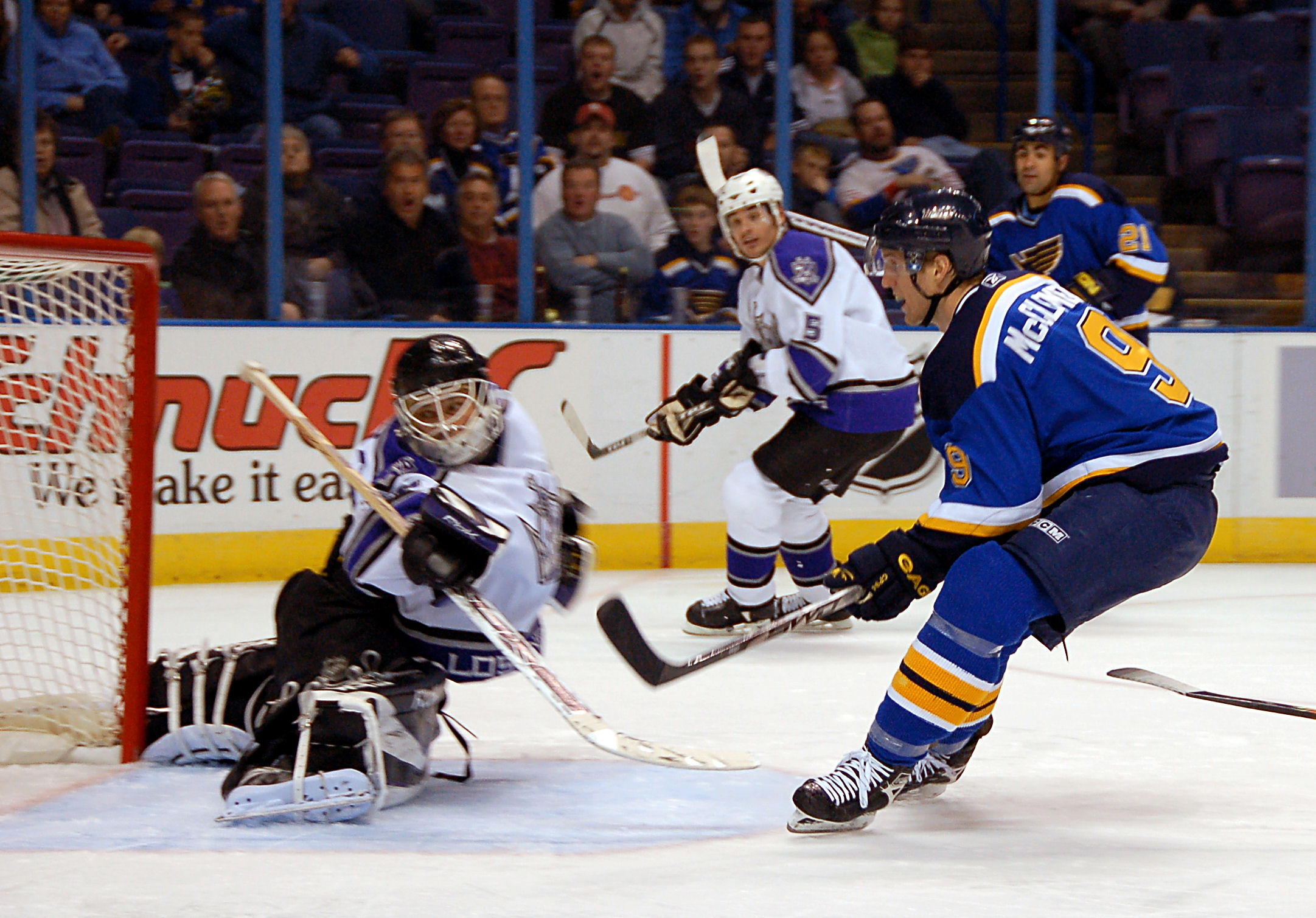 Jay McClement of the St. Louis Blues scores against Dan Cloutier of the L.A. Kings